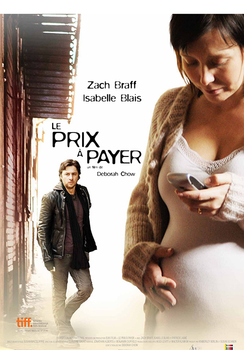 Poster of the movie The Price We Pay (Q20004199)